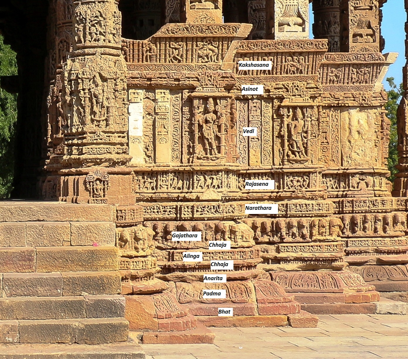 Sun Temple, Modhera - sabhamandapa with annotation of exterior mouldings